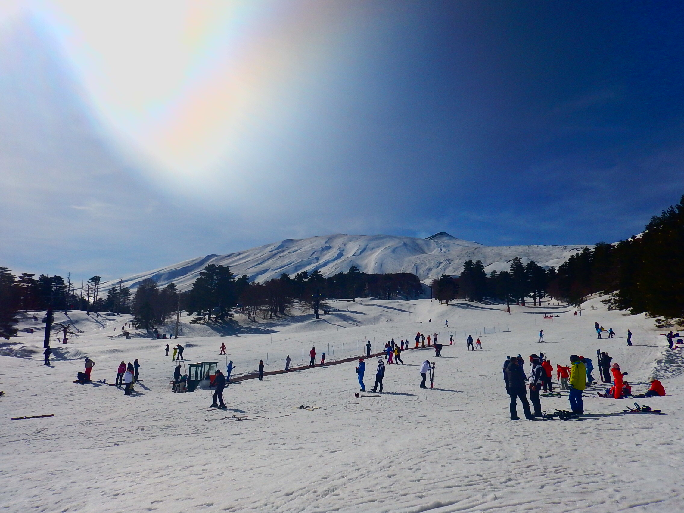 Etna nord skiresort is situated at Piano Provenzana at about at 1800 m of eight near the town of Linguaglossa.